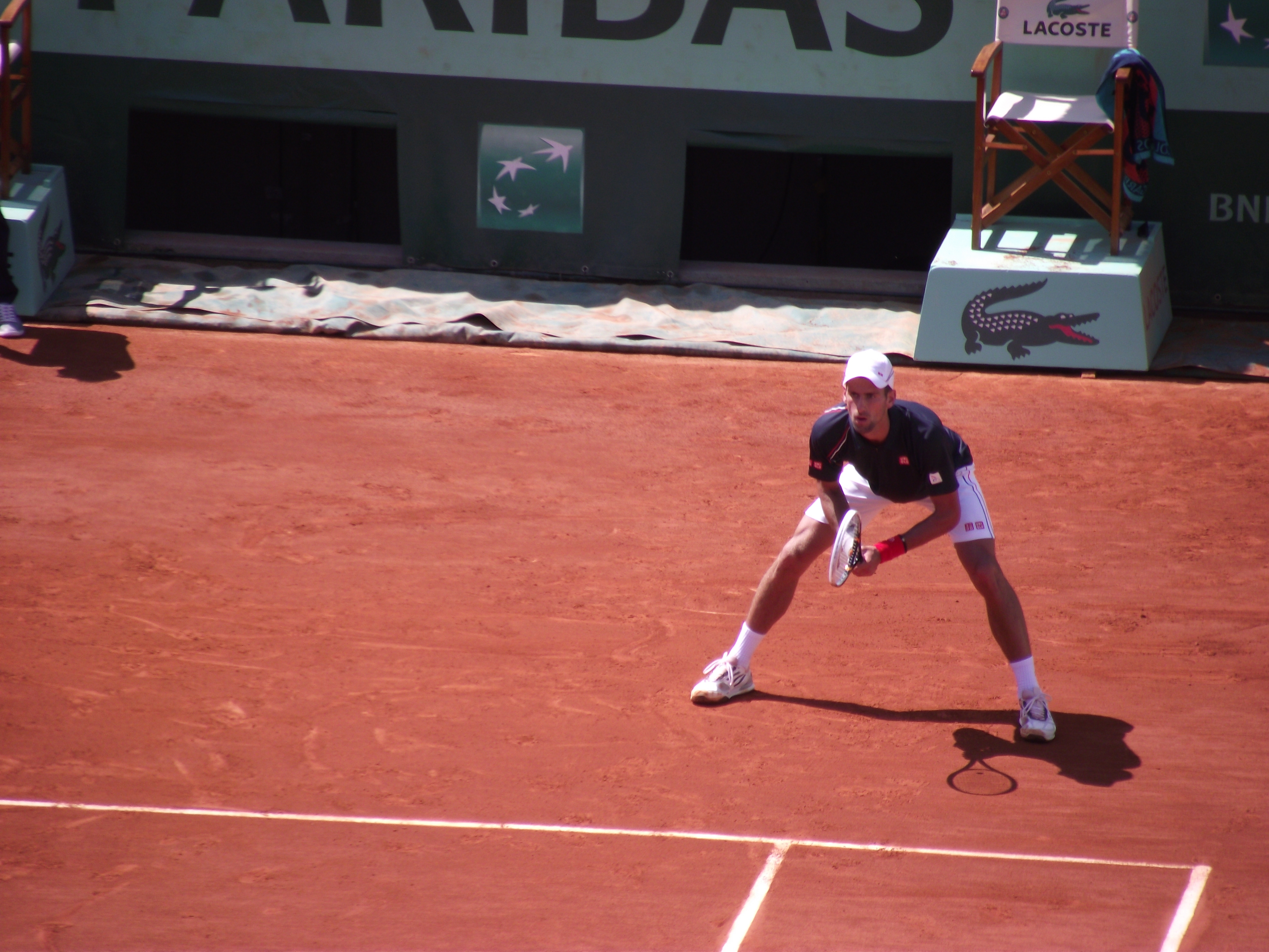 Serb Novak Djokovic at 2012 French Open. 2012 Roland Garros, Paris, France.